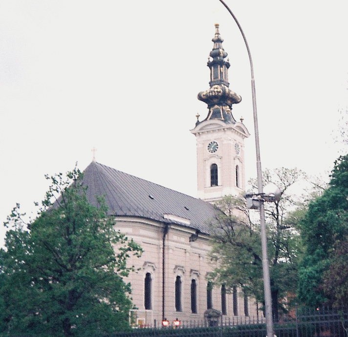 Orthodox Cathedral (Saborna crkva) in Novi Sad.